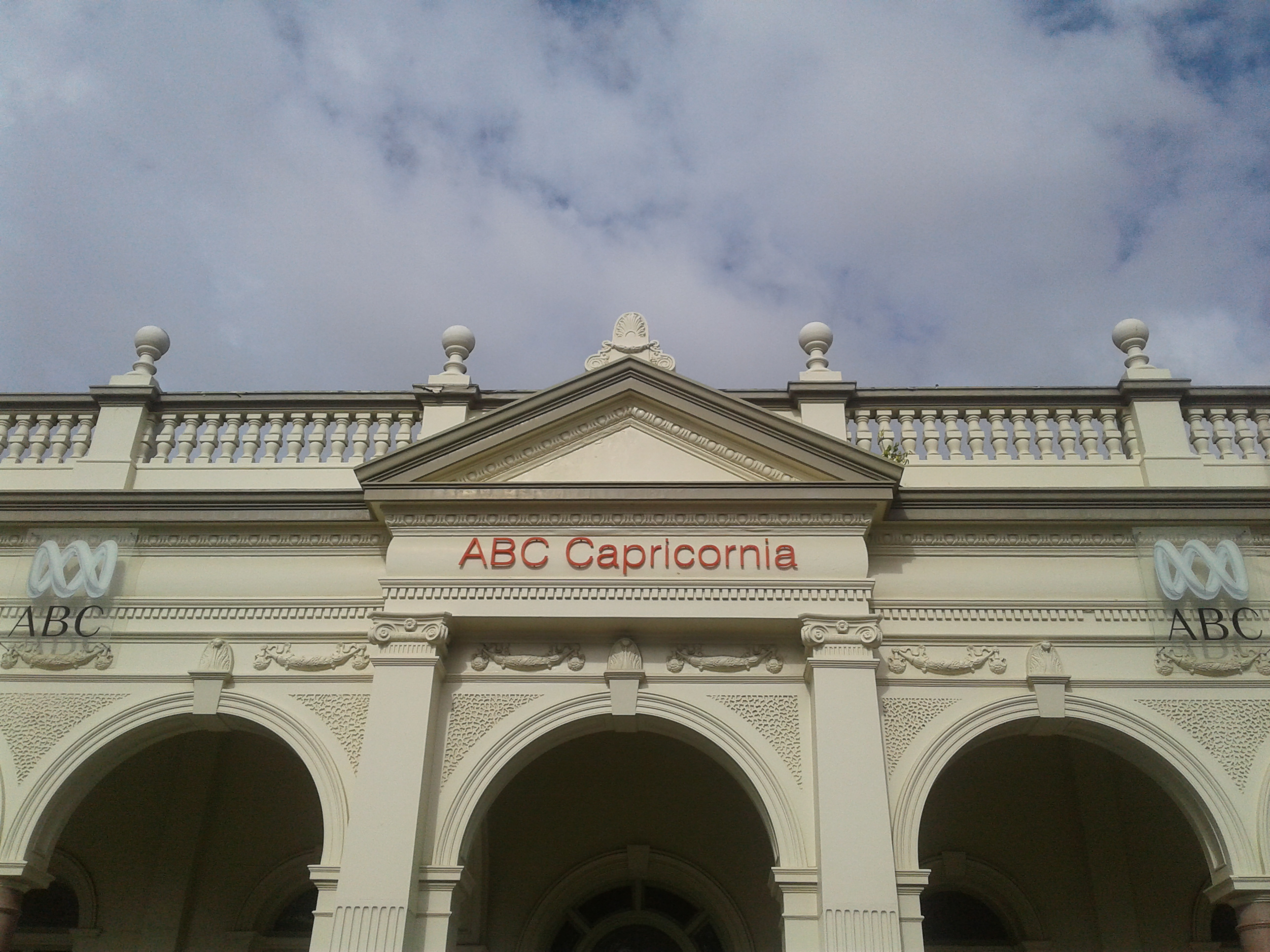 Shot of the ABC Capricornia building at 236 Quay St, Rockhampton, Queensland, showing, the current ABC signage.